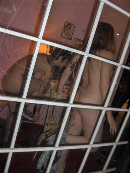 God's Girls performance installation area "Behind Bedroom Doors Opening" (art opening in Los Angeles)